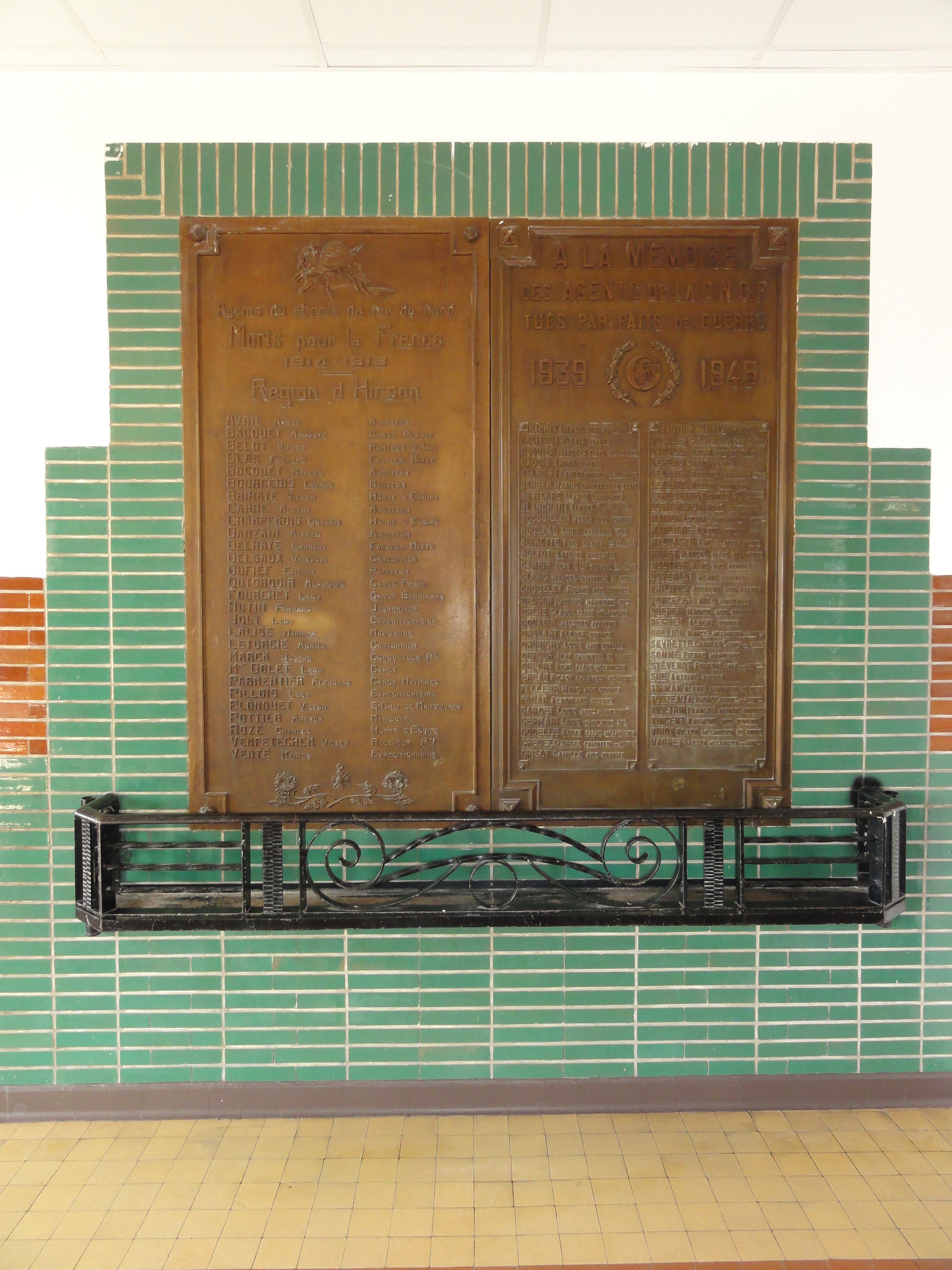 Memorial staff Railways, victims of the 1914-18 and 1939-45 wars in Hirson station, Aisne department, France.